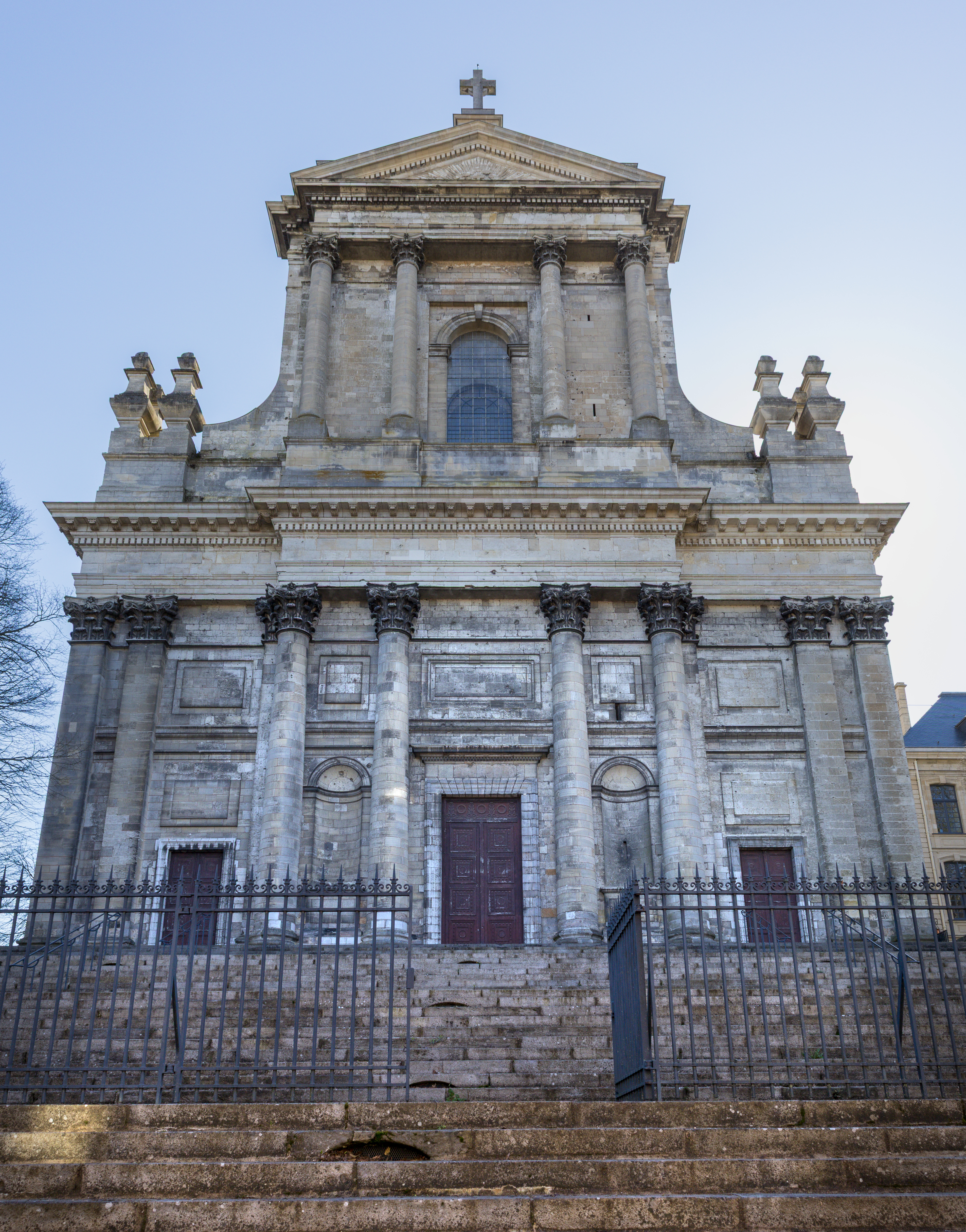 St vaast cathedral, located in arras, france